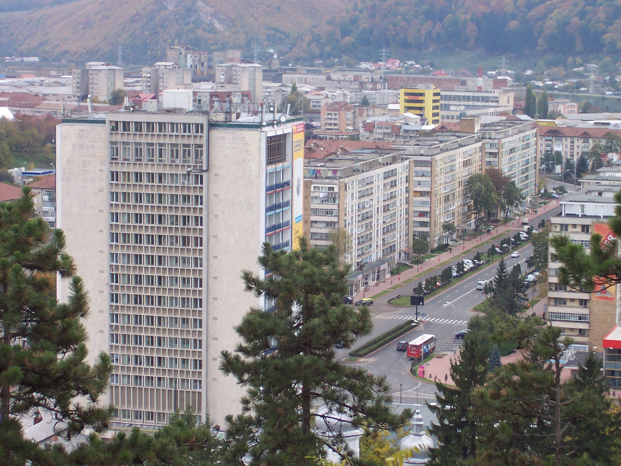 Overview of the Eminescu street